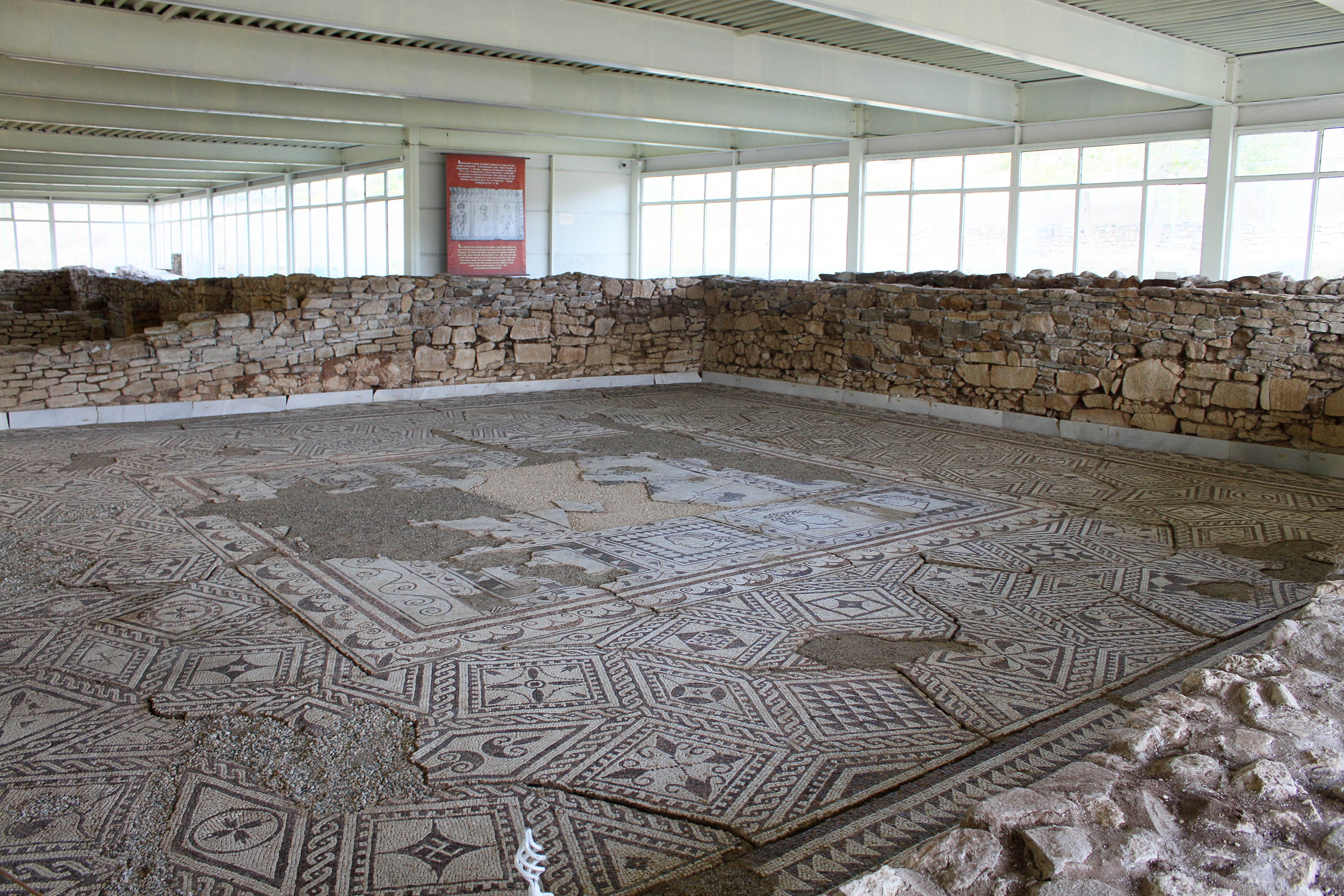 Villa Armira, in the Rhodope Mountains, Bulgaria